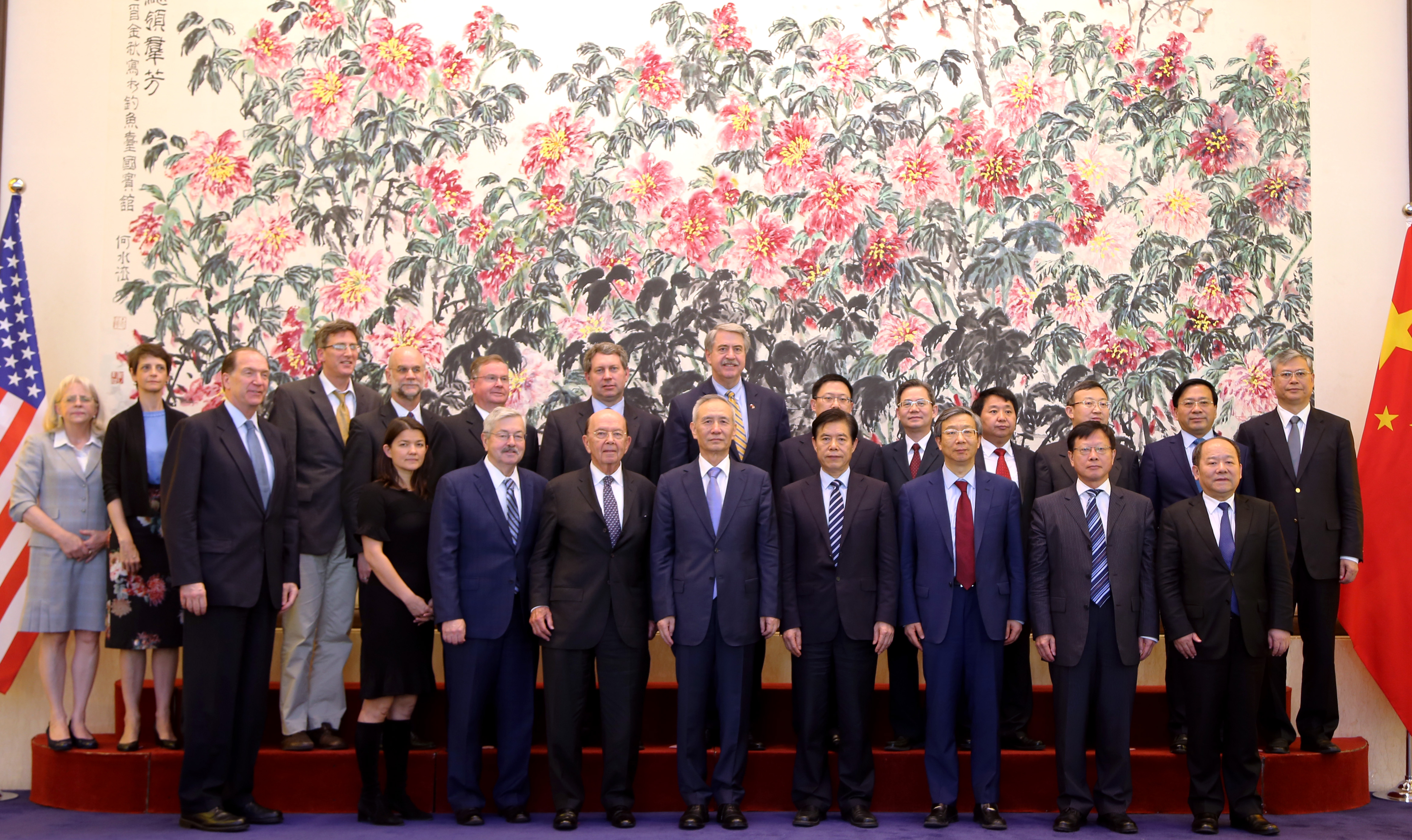 U.S. Commerce Secretary Wilbur Ross Meets with Vice Premier Liu He in Beijing, 06/03/2018